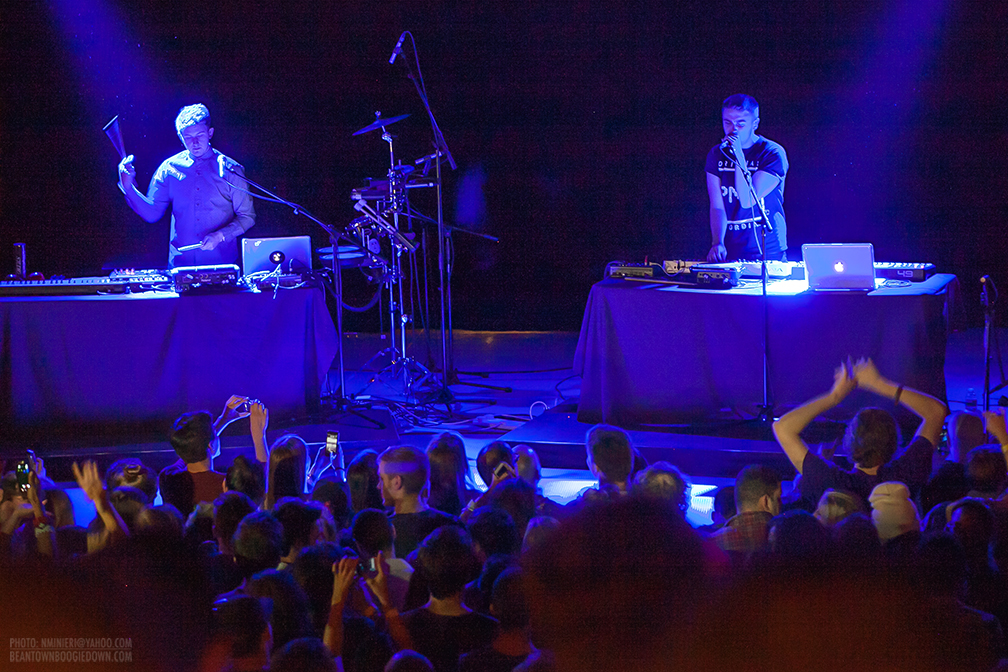 Disclosure at The Sinclair in 2013